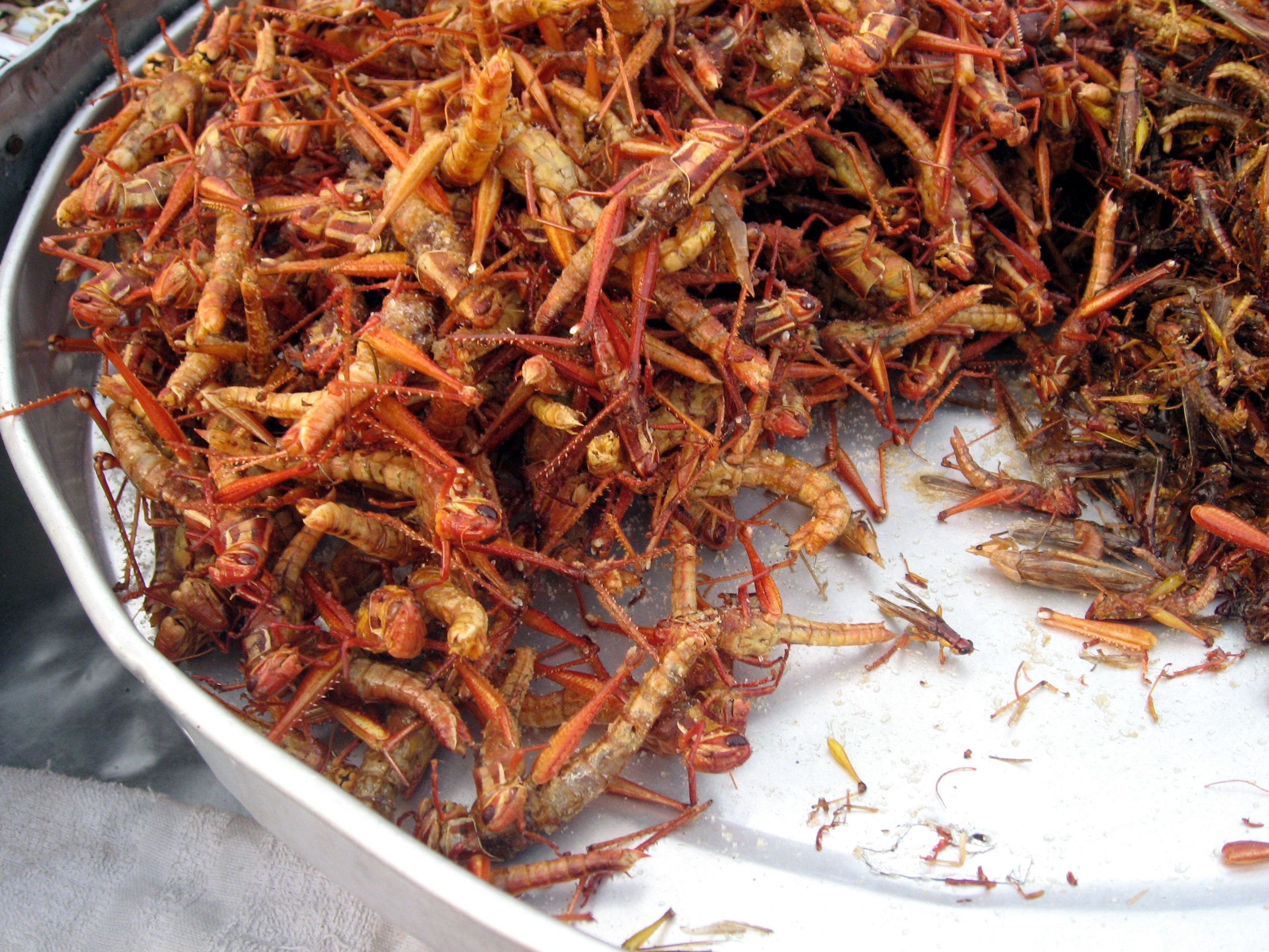 fried Grasshoppers on a market in Bangkok